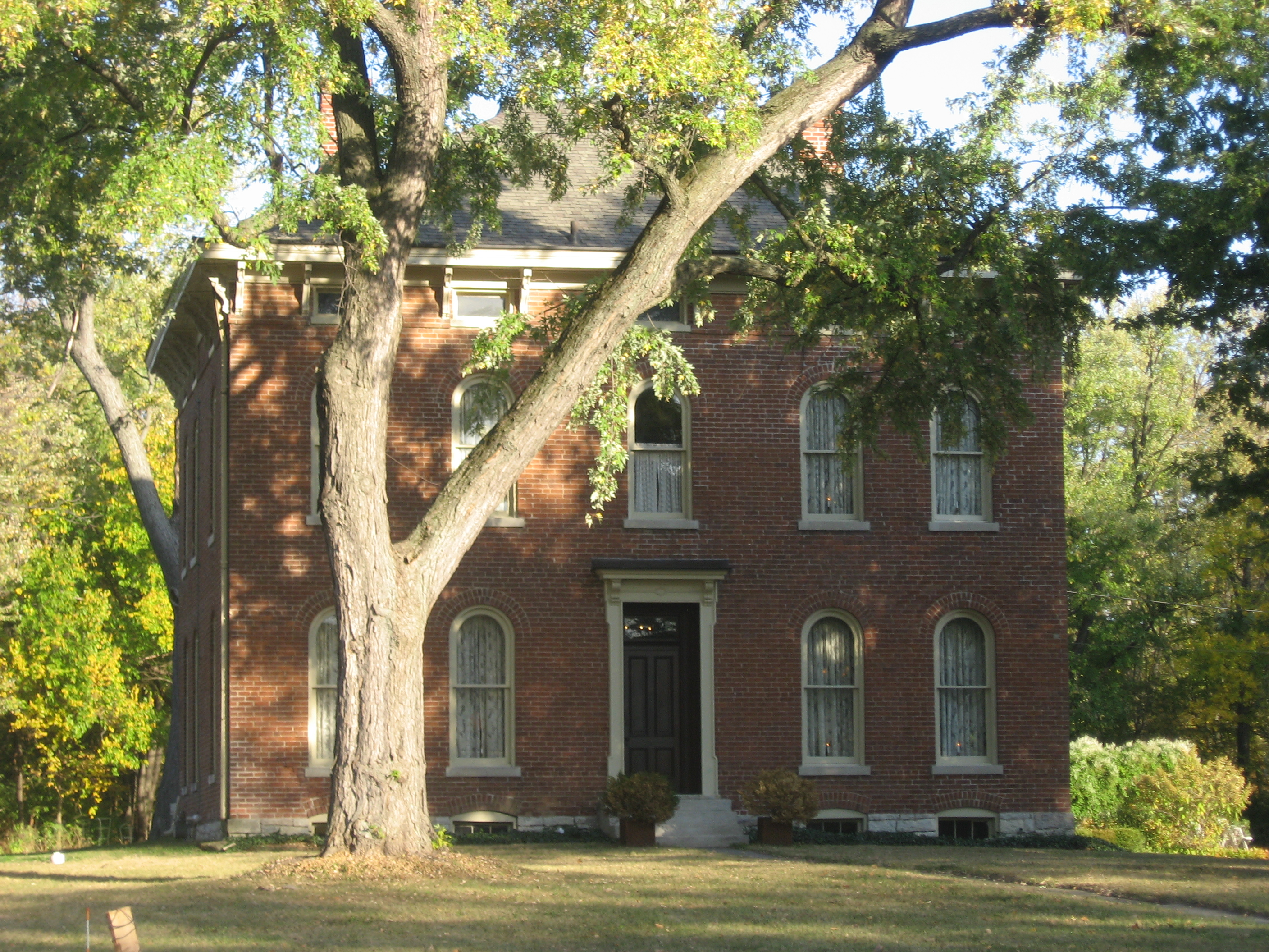 Front of the George Stumpf House, located at 3225 S. Meridian Street in Indianapolis, Indiana, United States. Built in 1870, it is listed on the National Register of Historic Places.